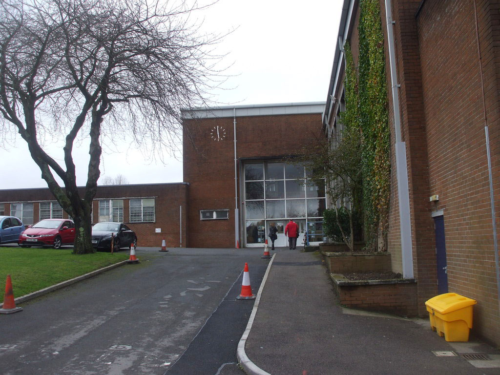 The Howardian Centre (main entrance), Pen-y-lan, Cardiff, lately an adult education centre but until 1990 a comprehensive school (Howardian High School)